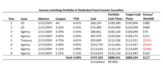 This shows series of bonds and CDs with staggered maturities whose coupon and principal payments will match the stream of income shown in the Target Cash Flows column in Table 1 (rates are fictitious for this example). The cash flow generated by the portfolio for the first year would be $100,380. This consists of the principal of the bond maturing on 2/15/2012 plus the coupon interest payments flowing from all the other bonds. The same would be true for the next year and every year thereafter. The total cash flows generated over the eight years sum to $889,350, compared to the target cash flow sum of $889,234, a difference of only $116. As with the first year, the cash flows are very close to the target cash flows needed for each year. The match cannot be perfect because bonds must usually be purchased in denominations of $1,000 (municipal bonds in denominations of $5,000). However, with the use of fairly sophisticated mathematical optimization techniques, correlations of 99 percent or better can usually be obtained. These techniques also determine which bonds to buy so as to minimize the cost of meeting the cash flows, which in this example is $747,325. Note that in this example, the bonds all mature on February 15, the middle of the first quarter. Other dates may be used, of course, such as the anniversary date of the portfolio’s implementation.